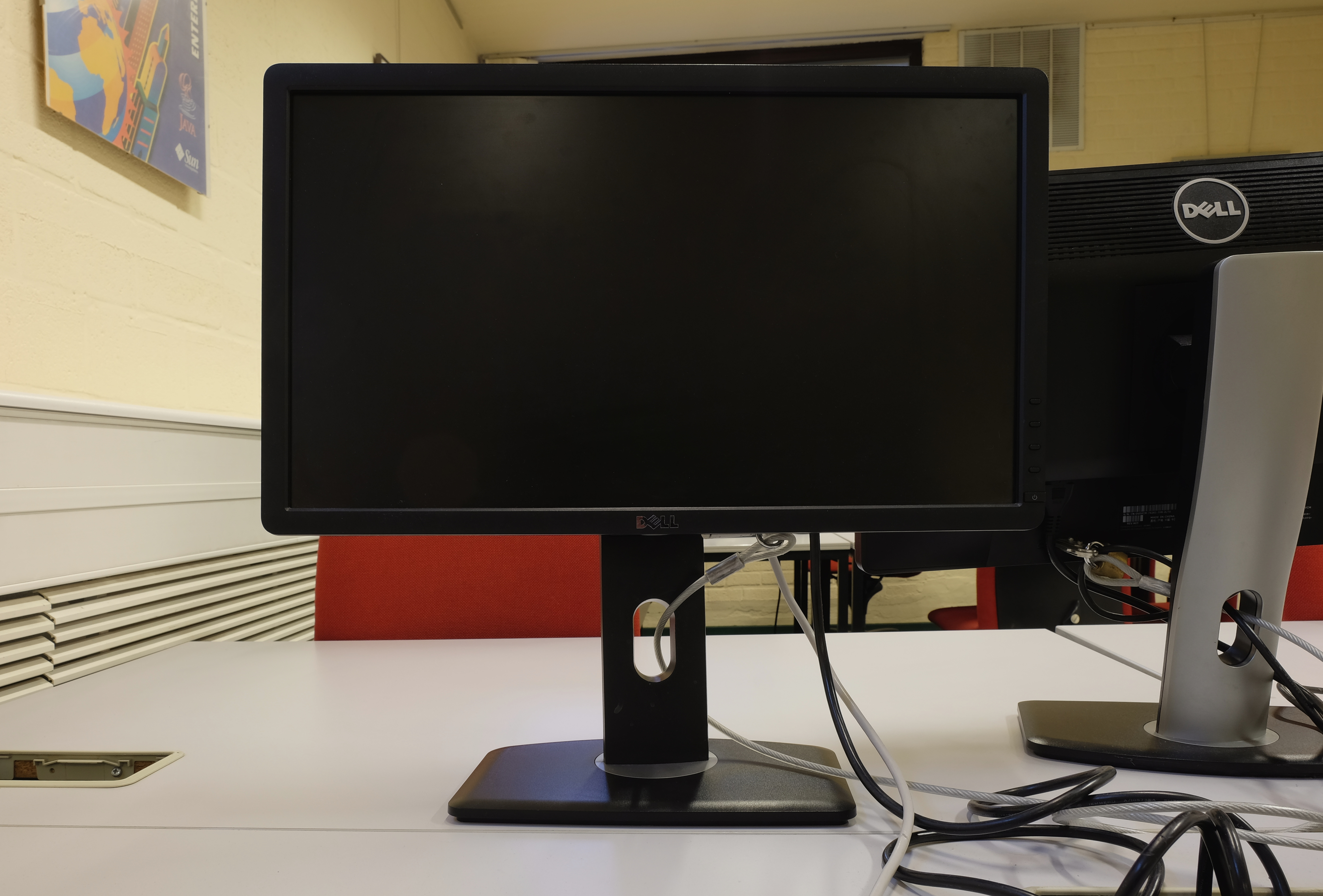 Dell P2212Hb 21.5" monitor at Universite Catholique de Louvain (batiment Reaumur, salle Bill Joy)